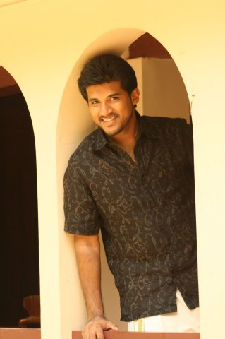 Depicted person: Vijay Yesudas – Bollywood singer